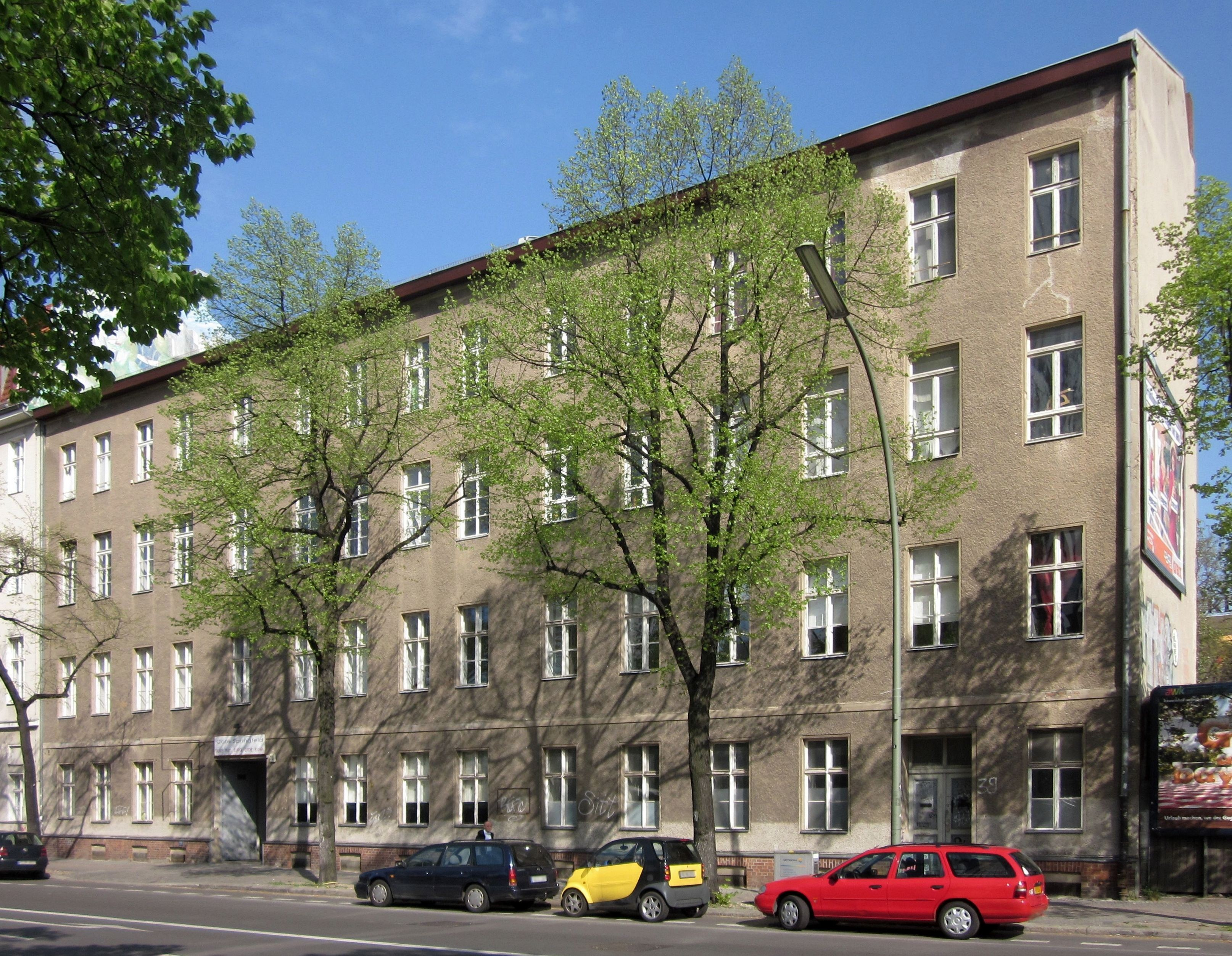 The former Ursulines convent at Axel-Springer-Straße No. 39 in Berlin-Kreuzberg. The house was constructed as a residential building before 1765 (probably making it the oldest preserved residential building in Kreuzberg) and and taken over by nuns of the Breslau Ursulines convent in 1855, who then established here a convent, a girls' boarding school, and an orphanage. In 1859, a church was added in the rear part of the lot, in 1861 a convent building, and in 1911 a new building for the school. The church and the new school building were destroyed in WWII. The preserved parts of the complex have been designated as a cultural heritage monument.